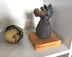 Two raku pottery